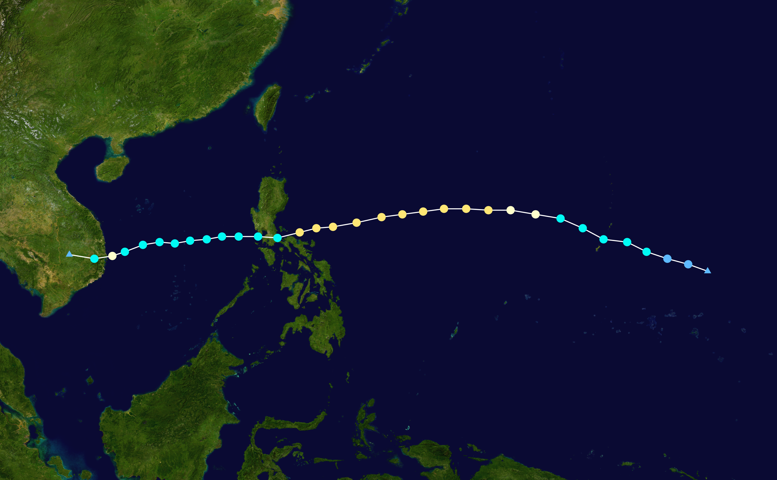 Track map of Typhoon Mirinae of the 2009 Pacific typhoon season. The points show the location of the storm at 6-hour intervals. The colour represents the storm's maximum sustained wind speeds as classified in the Saffir–Simpson scale (see below), and the shape of the data points represent the nature of the storm, according to the legend below. Saffir–Simpson scale Tropical depression≤38 mph≤62 km/h Category 3111–129 mph178–208 km/h Tropical storm39–73 mph63–118 km/h Category 4130–156 mph209–251 km/h Category 174–95 mph119–153 km/h Category 5≥157 mph≥252 km/h Category 296–110 mph154–177 km/h Unknown Storm type Tropical cyclone Subtropical cyclone Extratropical cyclone / Remnant low / Tropical disturbance / Monsoon depression